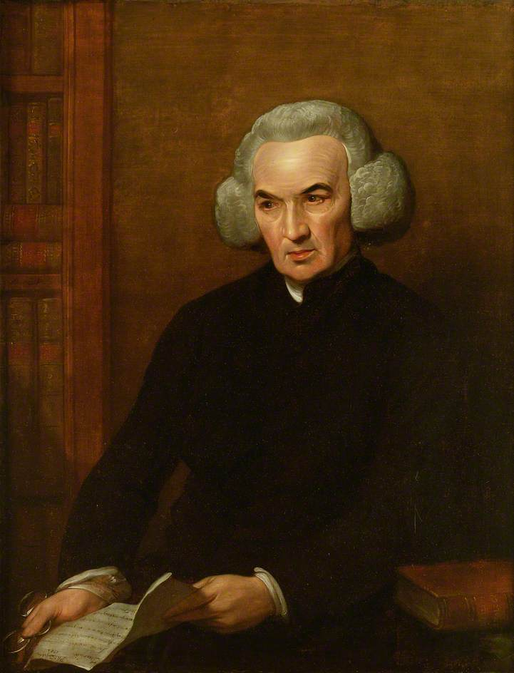 The sitter is shown is his study, reading a letter dated 1784 from Benjamin Franklin, a close friend of Price over many years.Price recorded sitting for the portrait in his short-hand journal. The journal is now in the collection of the Nationial Library (NLW MS 20721A). This portrait is the only official image of this highly important moral philosopher. There exist three versions: this present oil painting, a contemporary version now at the Royal Society and a 19th century copy in the Collection of the National Museum of Wales. The frame was specially commissioned using funds provided by the Friends of the Library. It is a Maretti, gilded frame in a style contemporary with the painting.